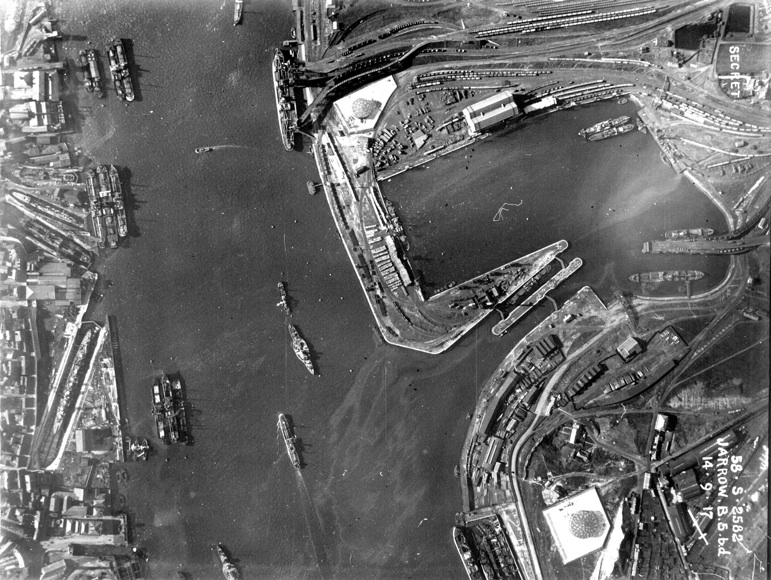 Albert Edward Dock, North Shields 14th September 1917 This image is taken from a glass plate in the Gladstone Adams collection. Adams was a noted commercial photographer and served in the Royal Flying Corps during the First World War. Reference: TWAS: DT.GA.4.1-4 (Copyright) We're happy for you to share this digital image within the spirit of The Commons. Please cite 'Tyne & Wear Archives & Museums' when reusing. Certain restrictions on high quality reproductions and commercial use of the original physical version apply though; if you're unsure please . To purchase a hi-res copy please quoting the title and reference number.